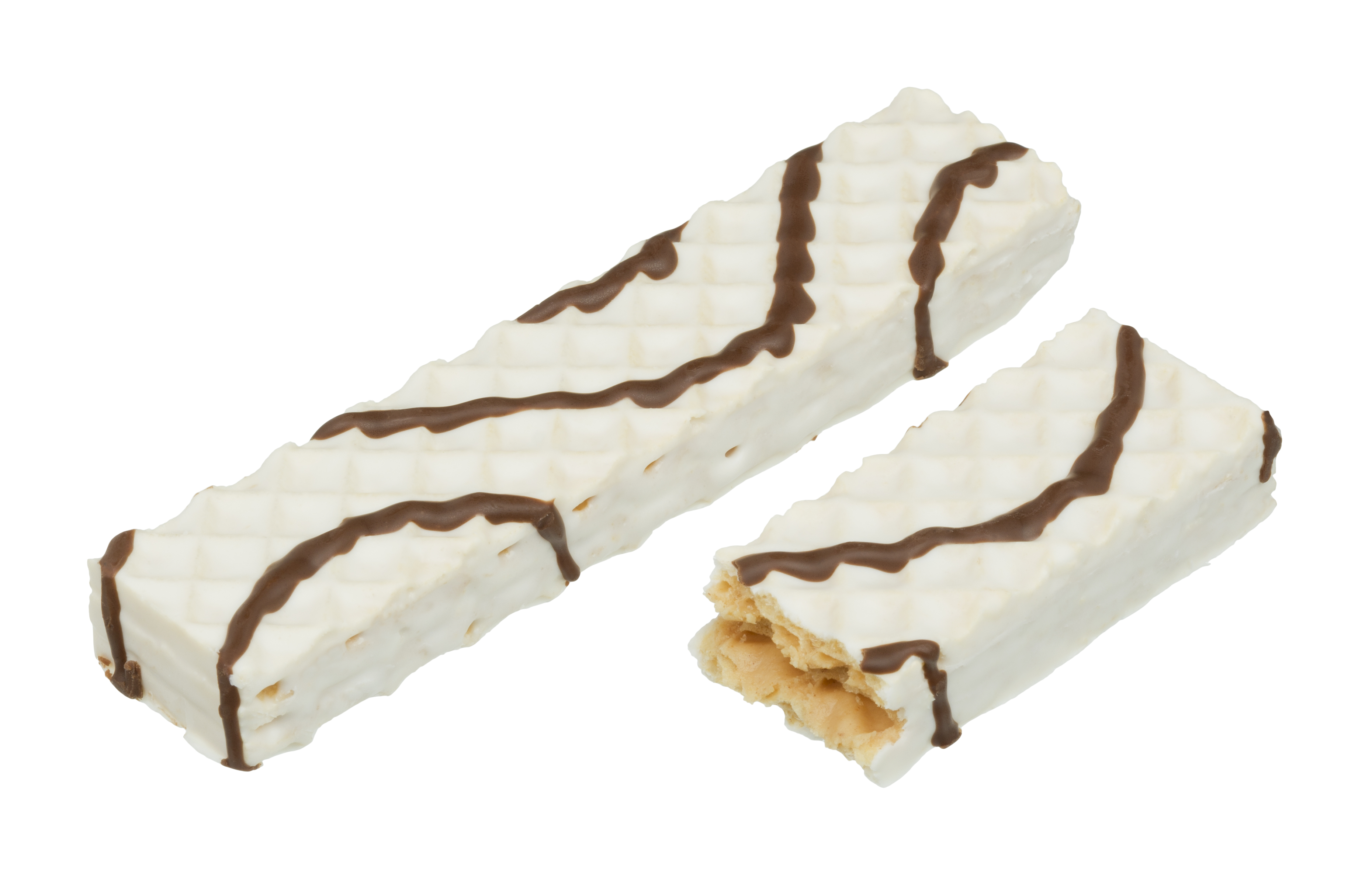 A "Zebra" version of the common Little Debbie Nutty Bars, a limited edition variant.